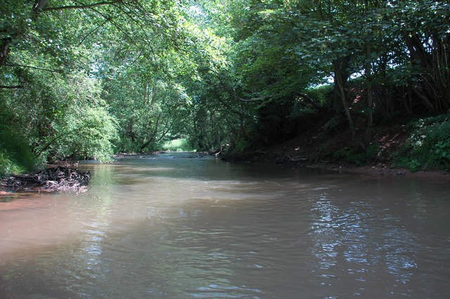 The River Rea, near Nineveh The River Rea is a tributary of the River Teme, here it is the county boundary between Shropshire (left bank) and Worcestershire (right bank).